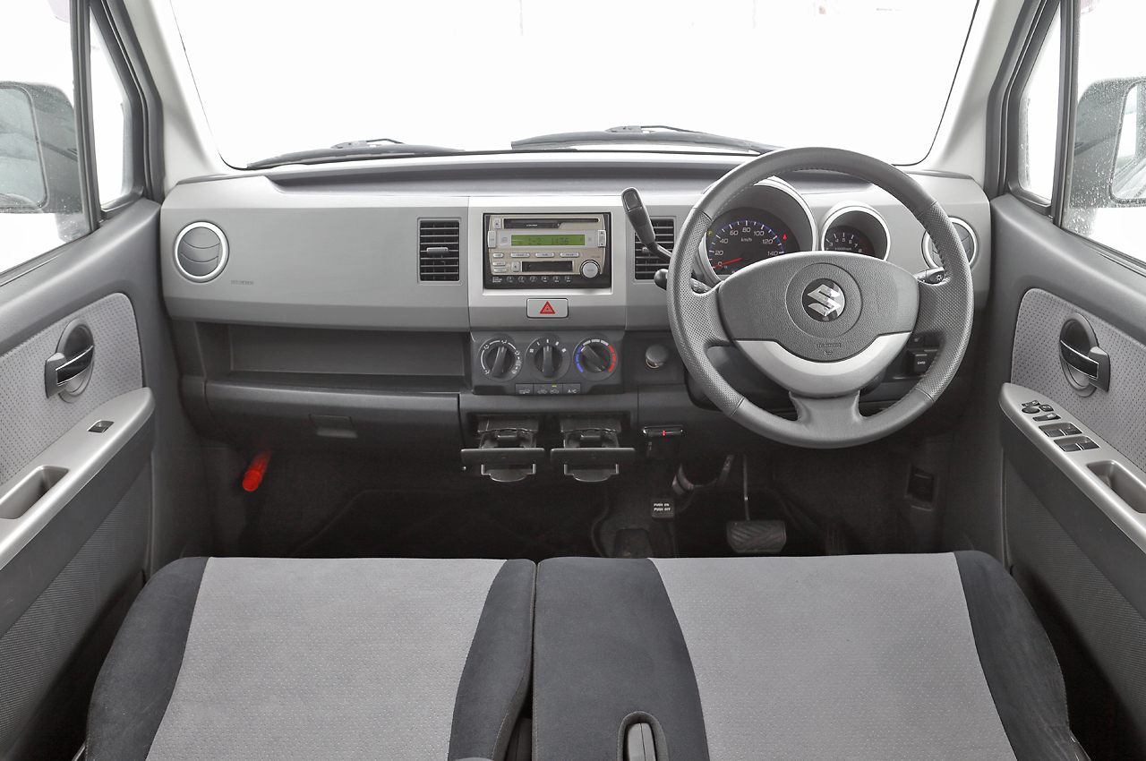 Interior of Suzuki Wagon R, FX-Limited (MH21S).